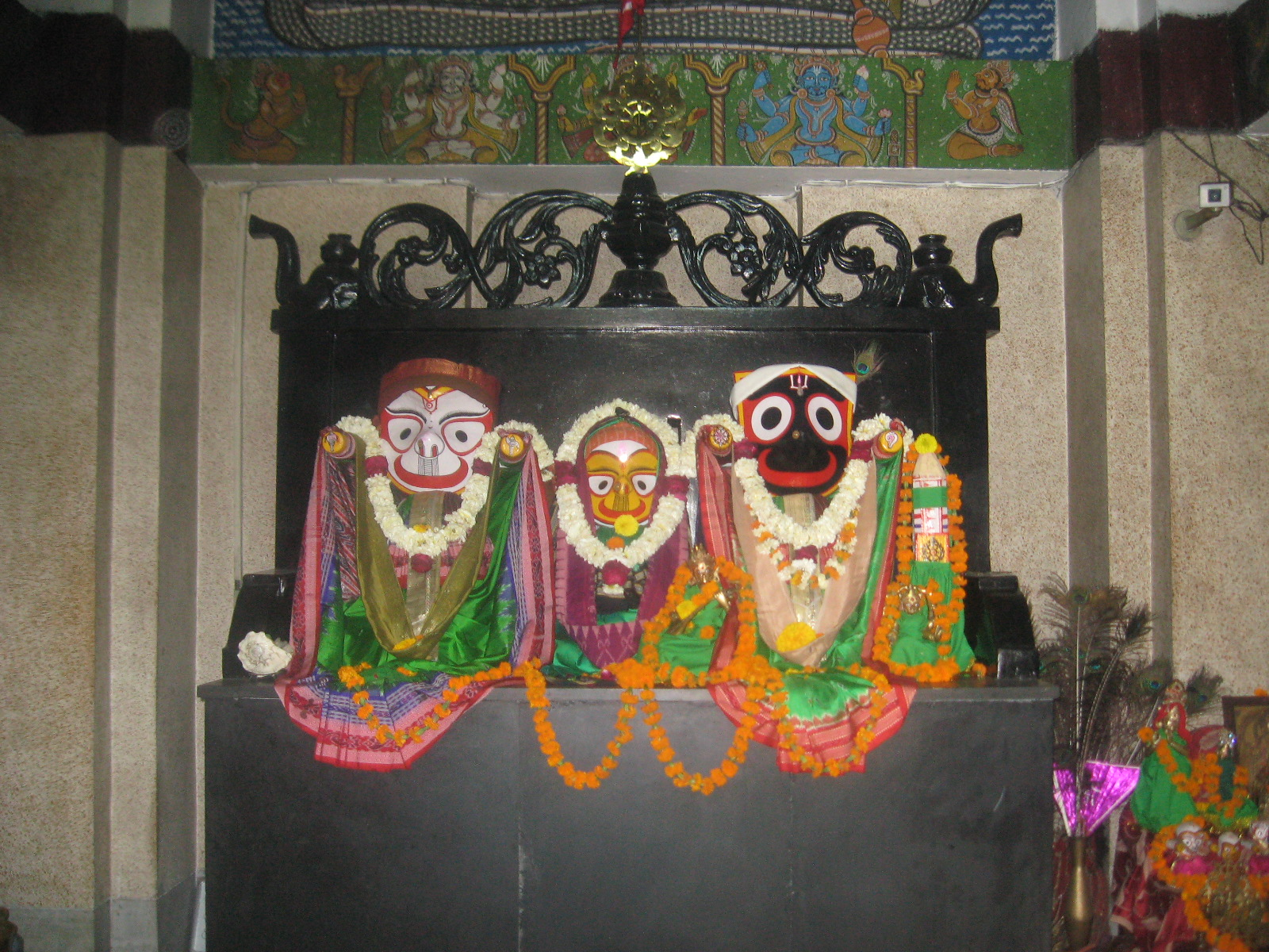 Jagannath Temple at Hauz Khas, New Delhi. ଓଡ଼ିଆ: ନୂଆ ଦିଲ୍ଲୀର ହୌଜ ଖାସରେ ସ୍ଥିତ ଜଗନ୍ନାଥ ମନ୍ଦିର ।